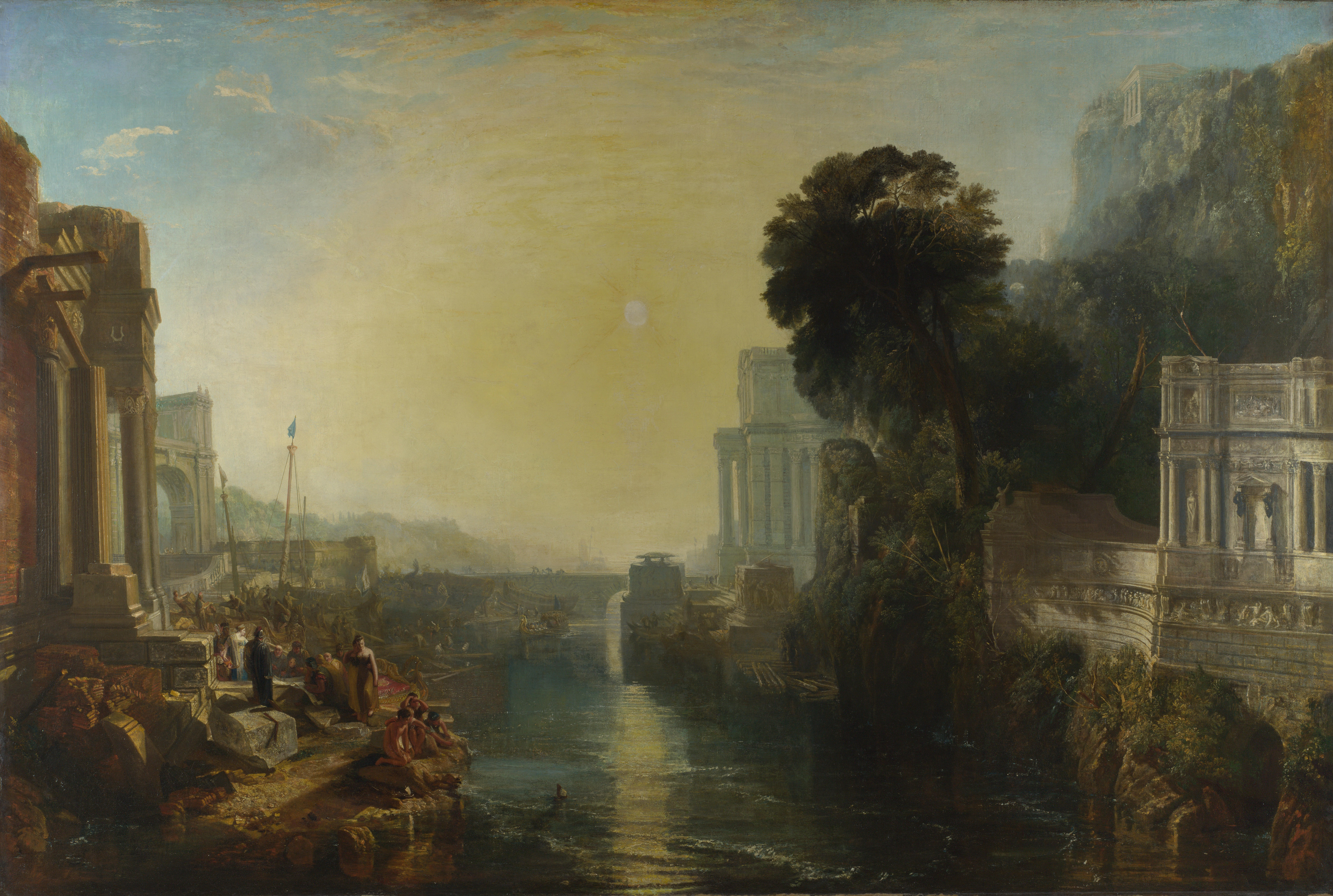 Dido building Carthage or The Rise of the Carthaginian Empire